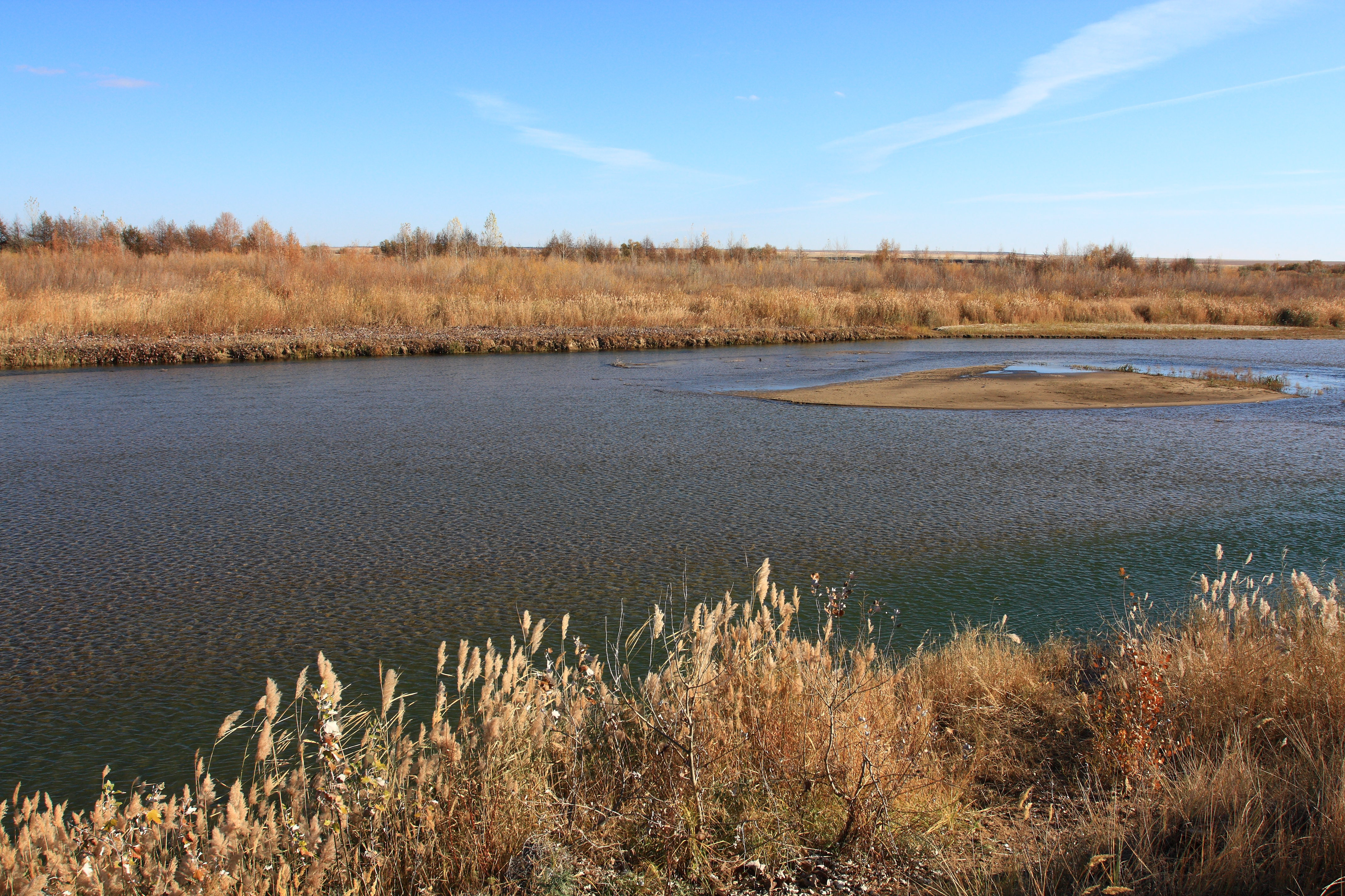 Ilek River